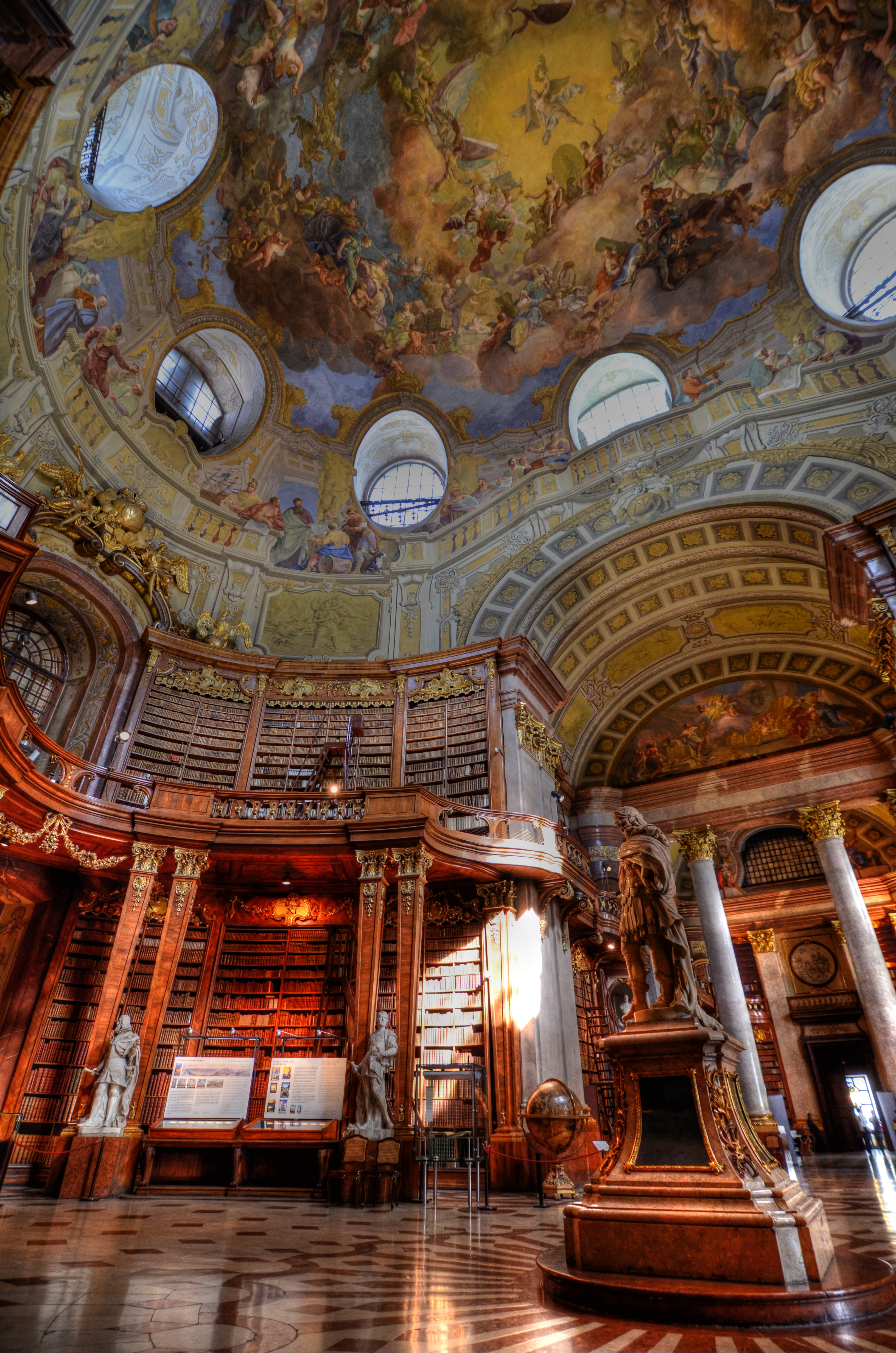 Austrian National Library. State Hall